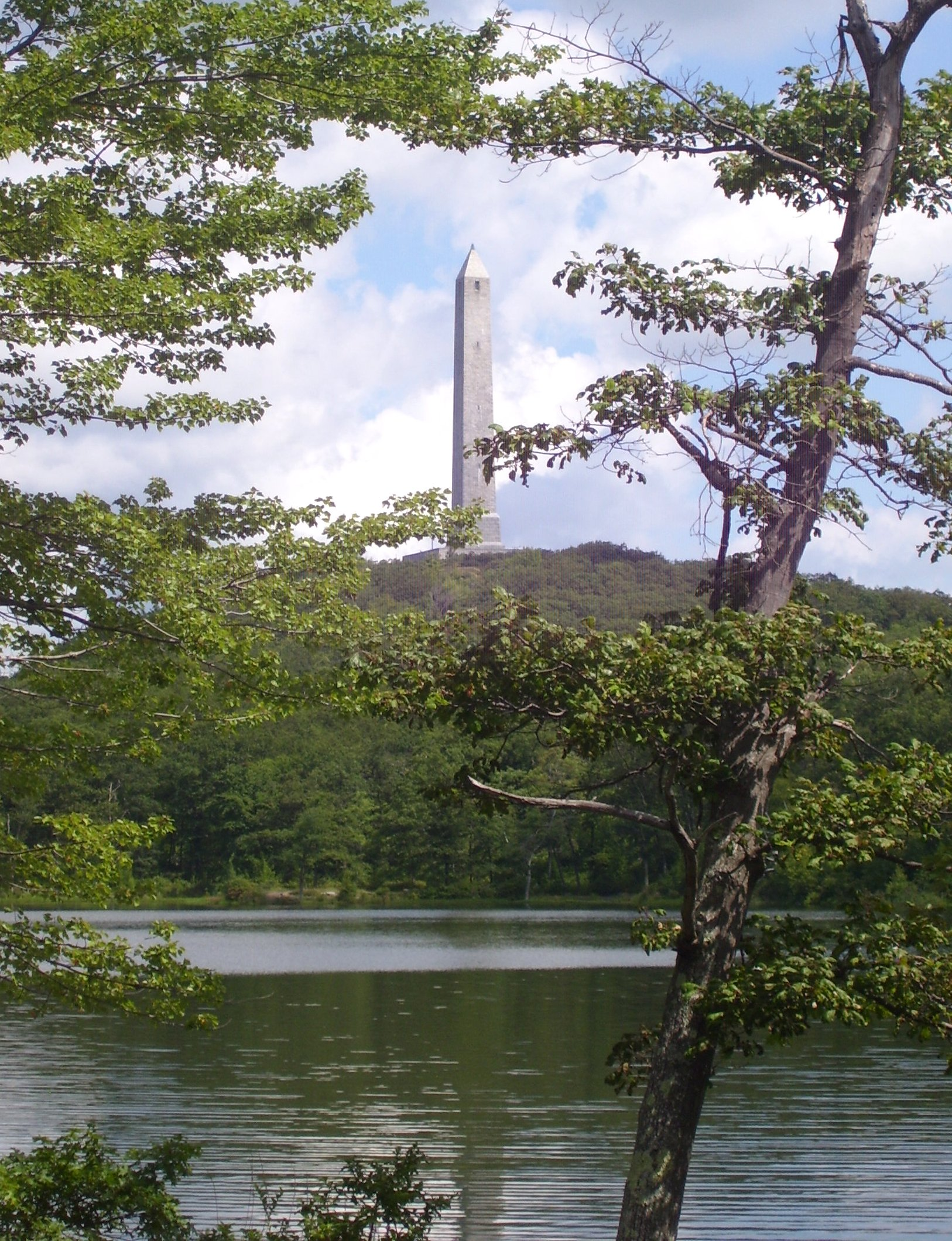 High Point and the Monument with Lake Marcia in the foreground, in High Point State Park, New Jersey.